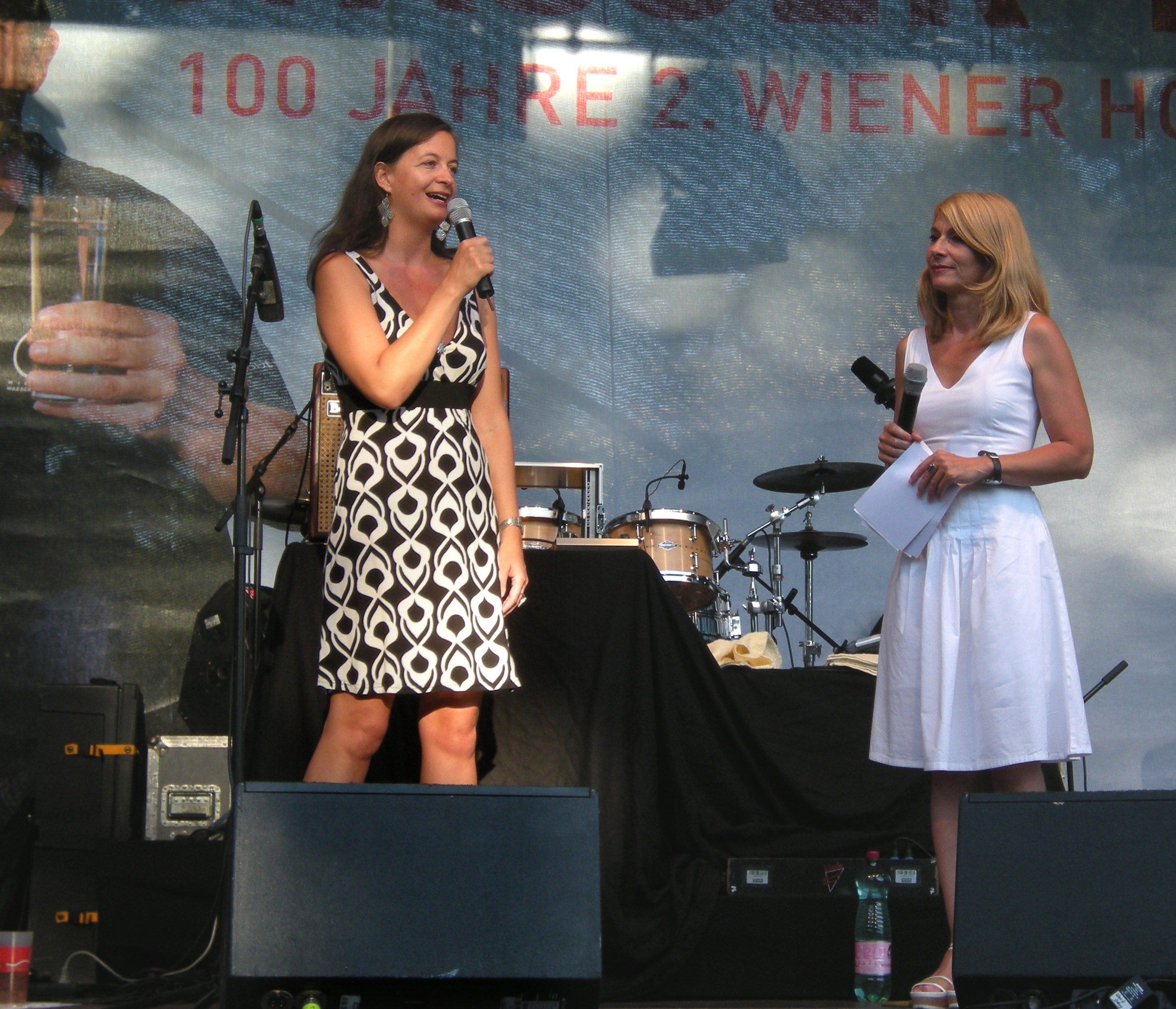 Wien 20100710 - Alles Wasser-Fest 324 politician Ulrike 'Ulli' Sima (left) interviewed by Barbara v. Melle